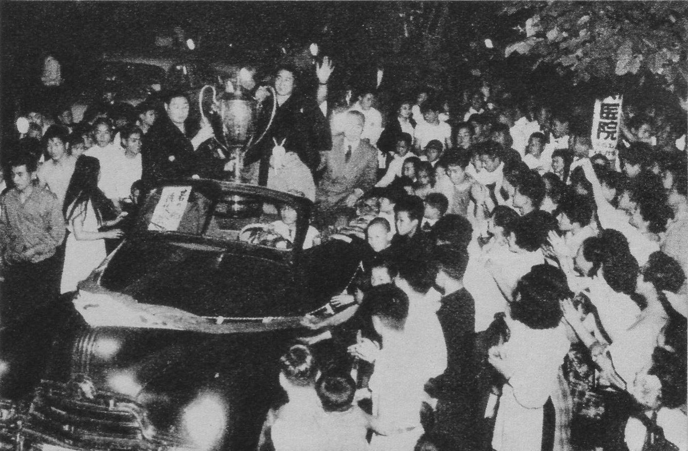 Victory parade from Wakanohana Kanji I.